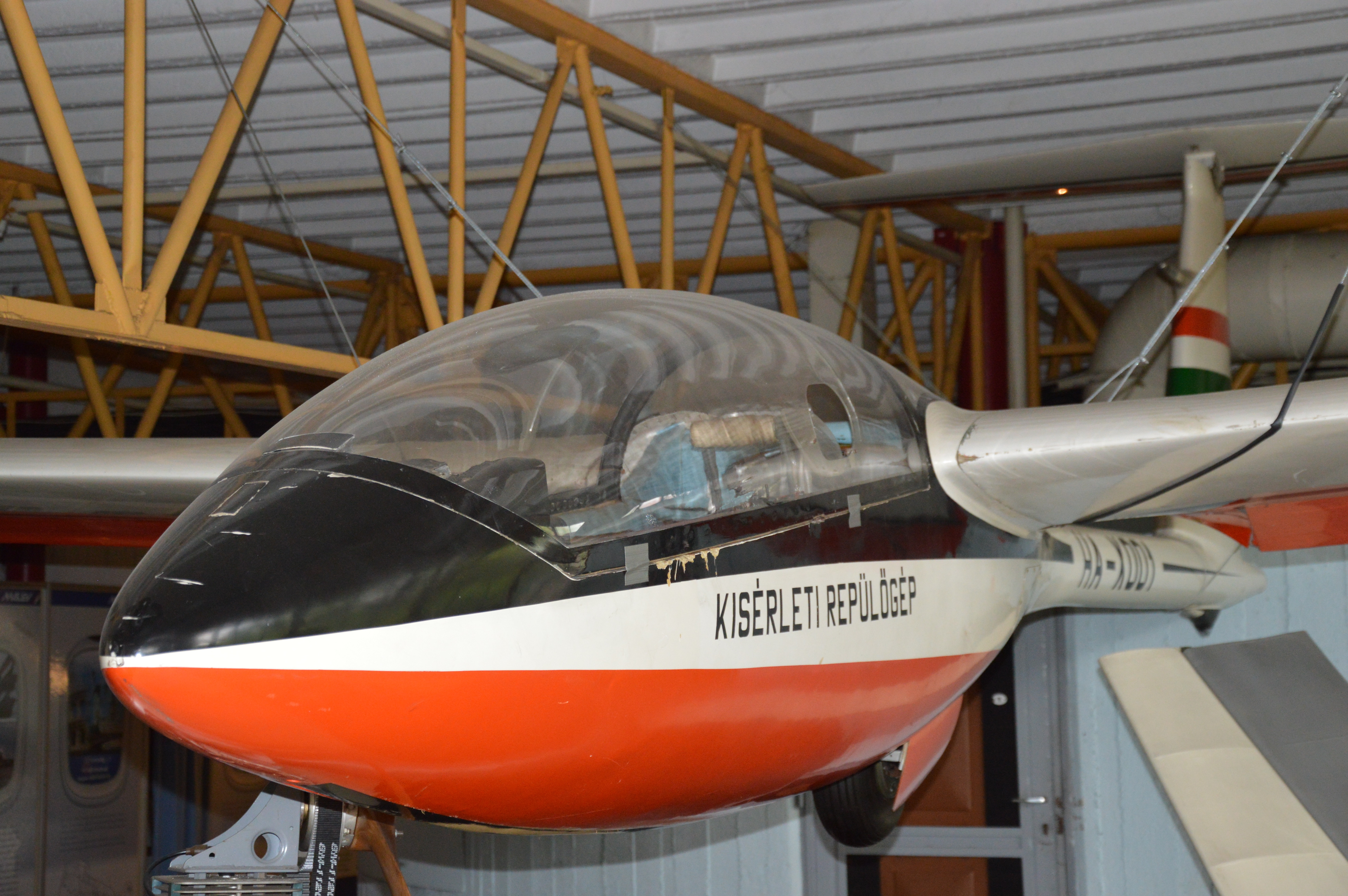 Kesselyák KM-400 competition glider (reg. HA-X001) on display at the Hungarian Technical and Transportation Museum, Budapest